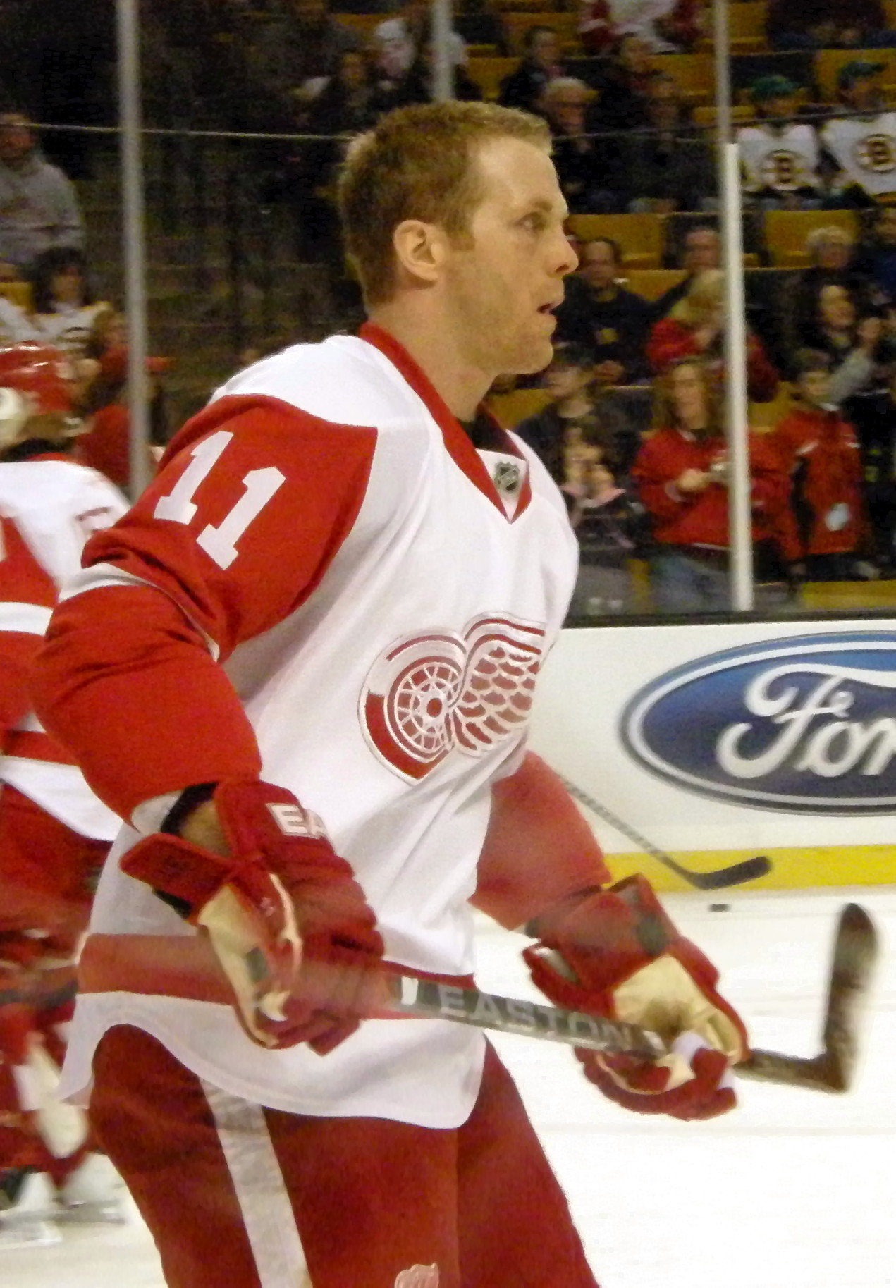 11 Daniel Cleary (RW)